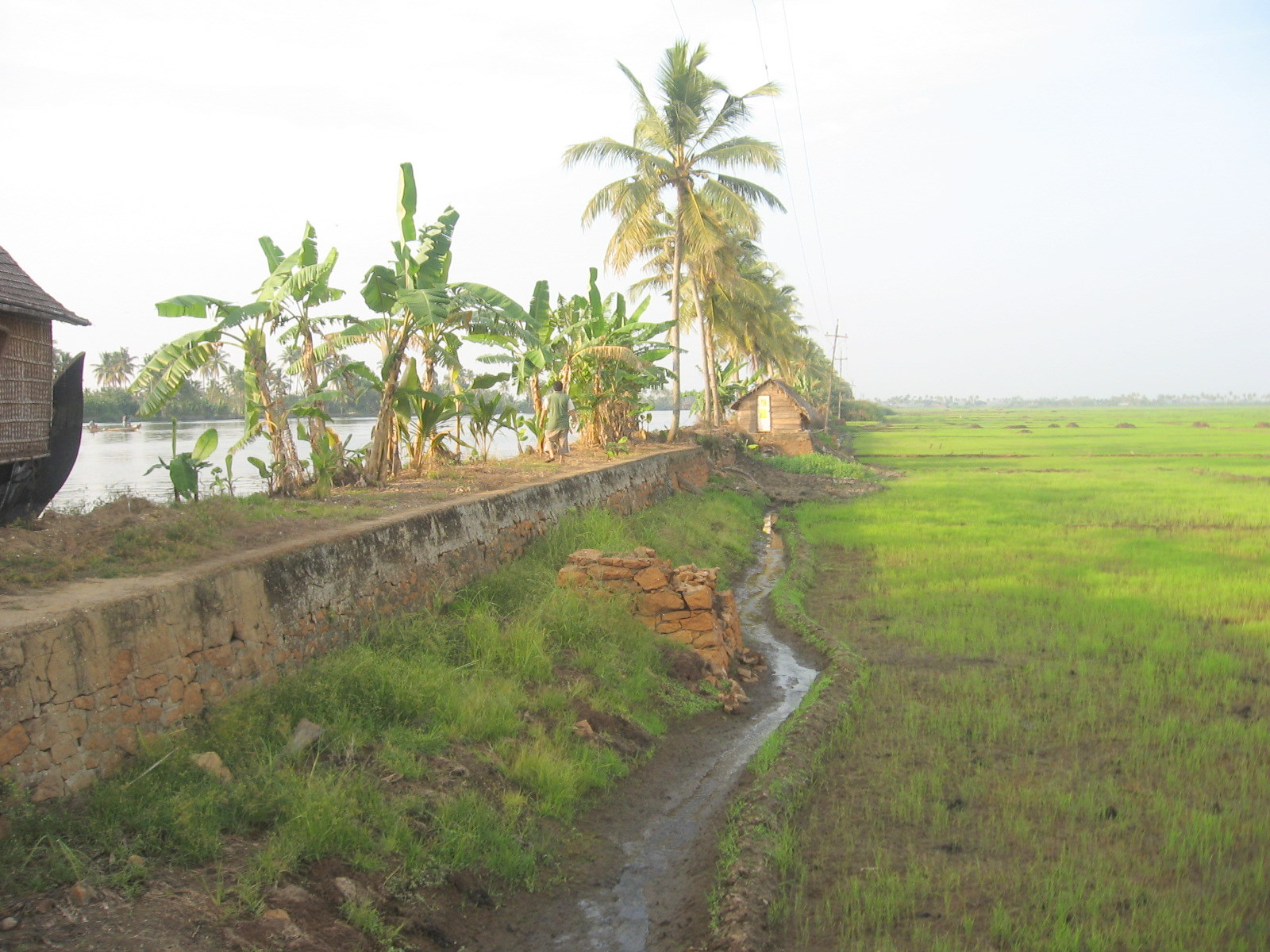 Paddy fields in Kuttanad, Kerala Backwaters, at a level lower than the canals